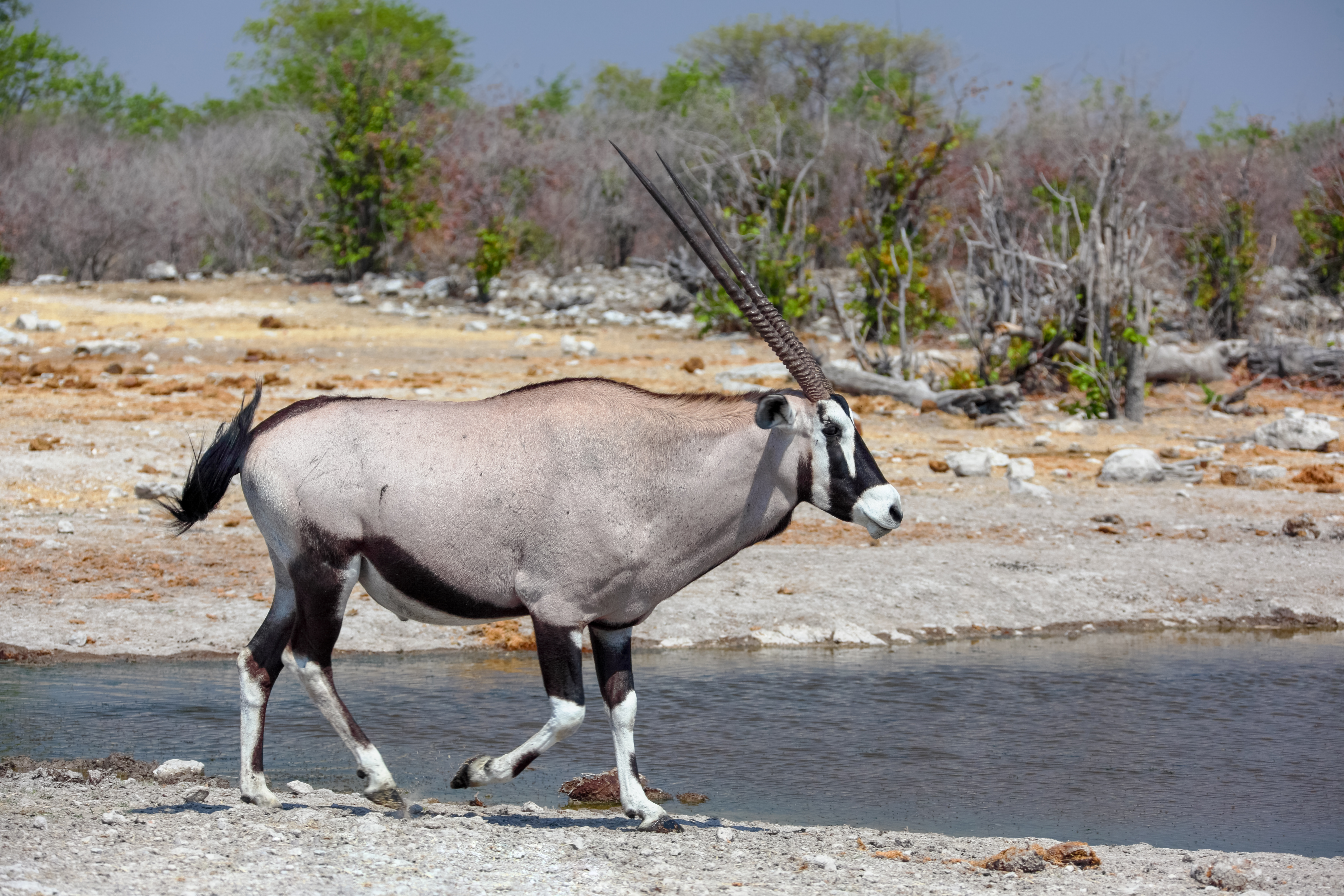 Gemsbok, male (Oryx gazella) at water hole named "Kalkheuwel Bore Hole" in Etosha National Park, Namibia.